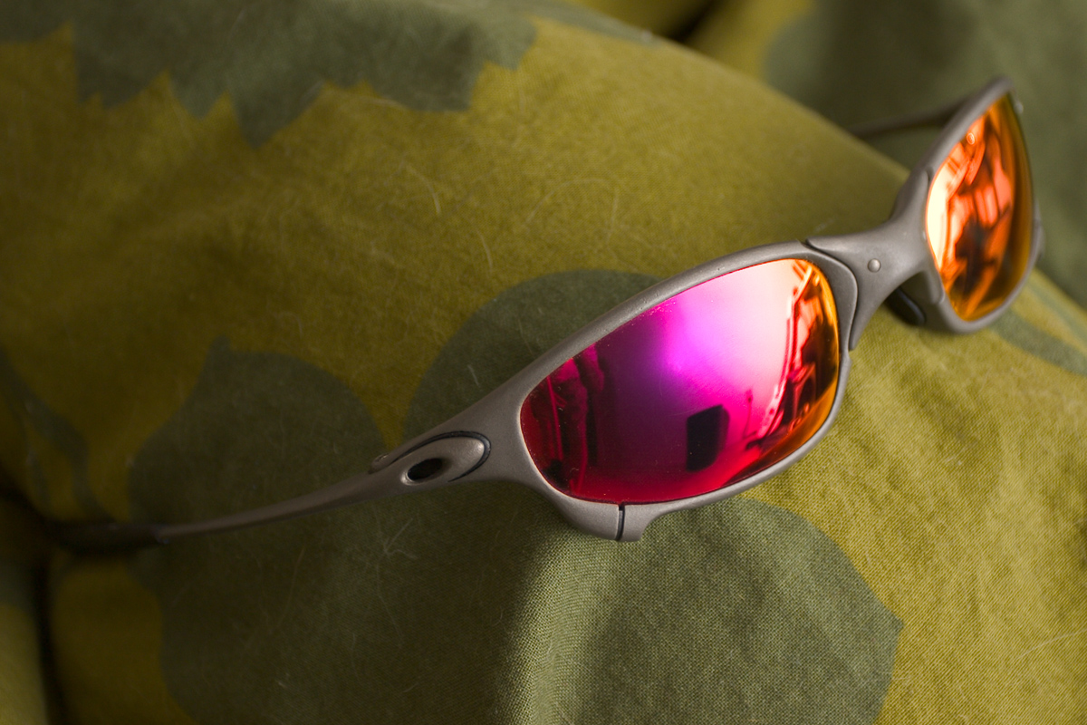 Serialled X-Metal Juliet with Ruby Iridium lenses.